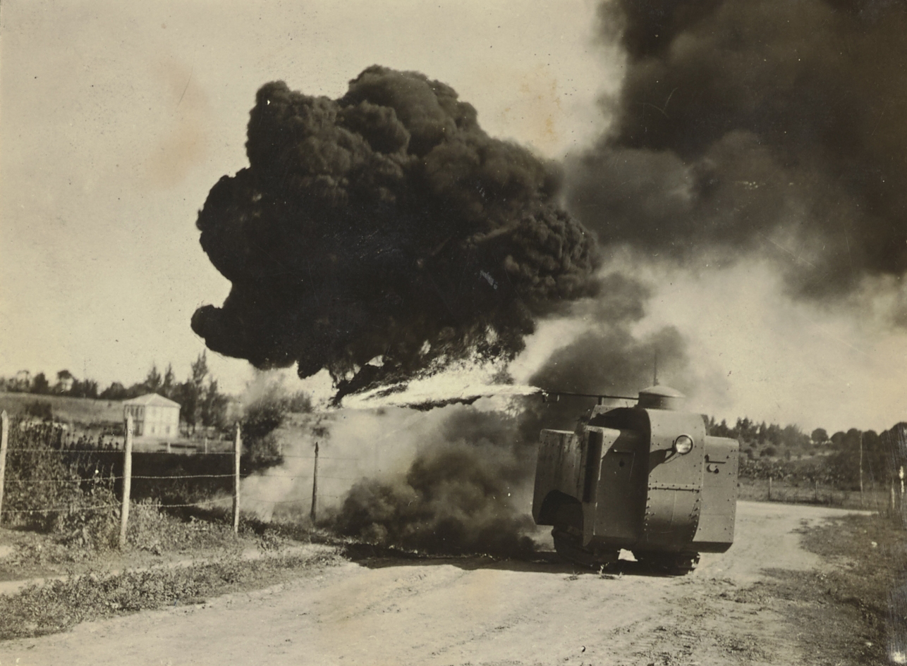 Armored Caterpillar tractor during the Constitutionalist Revolution of 1932.